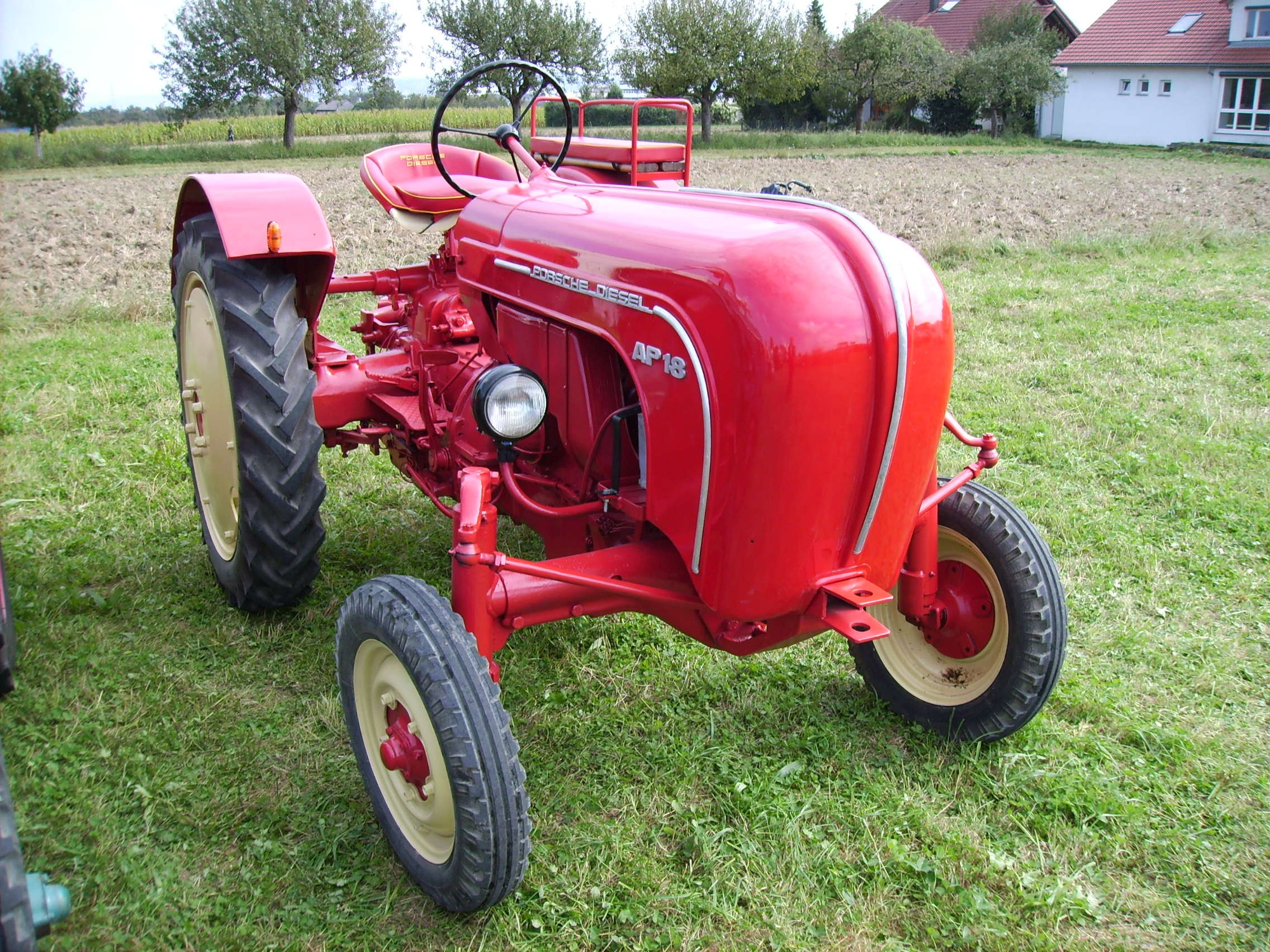 Porsche-Diesel AP18, 18 HP